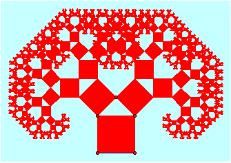 The Pythagoras tree.